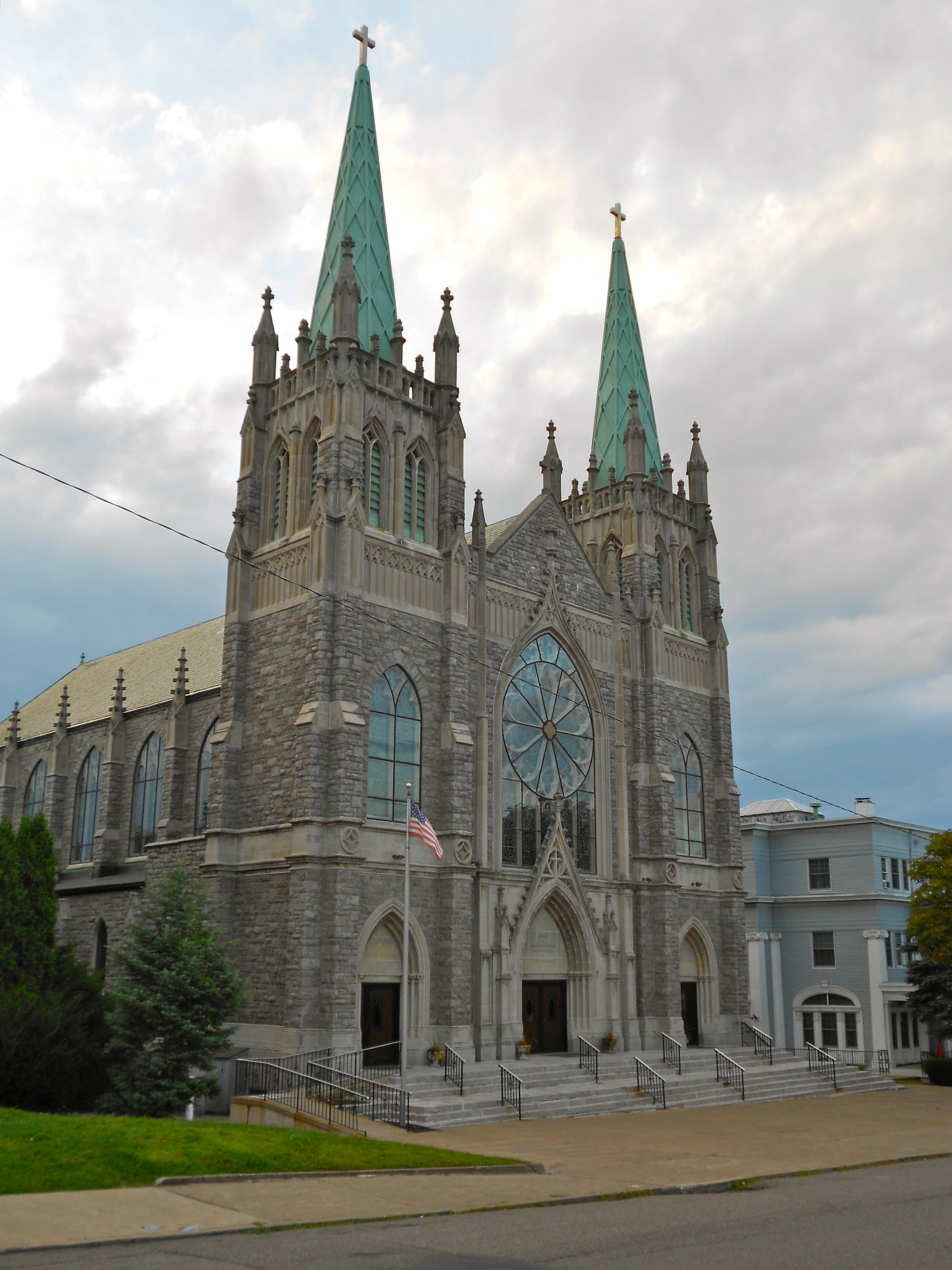 St. Gabriel's Catholic Parish Complex, on the NRHP since August 22, 2002, at 122–142 South Wyoming Street, Hazleton, Luzerne County, Pennsylvania.